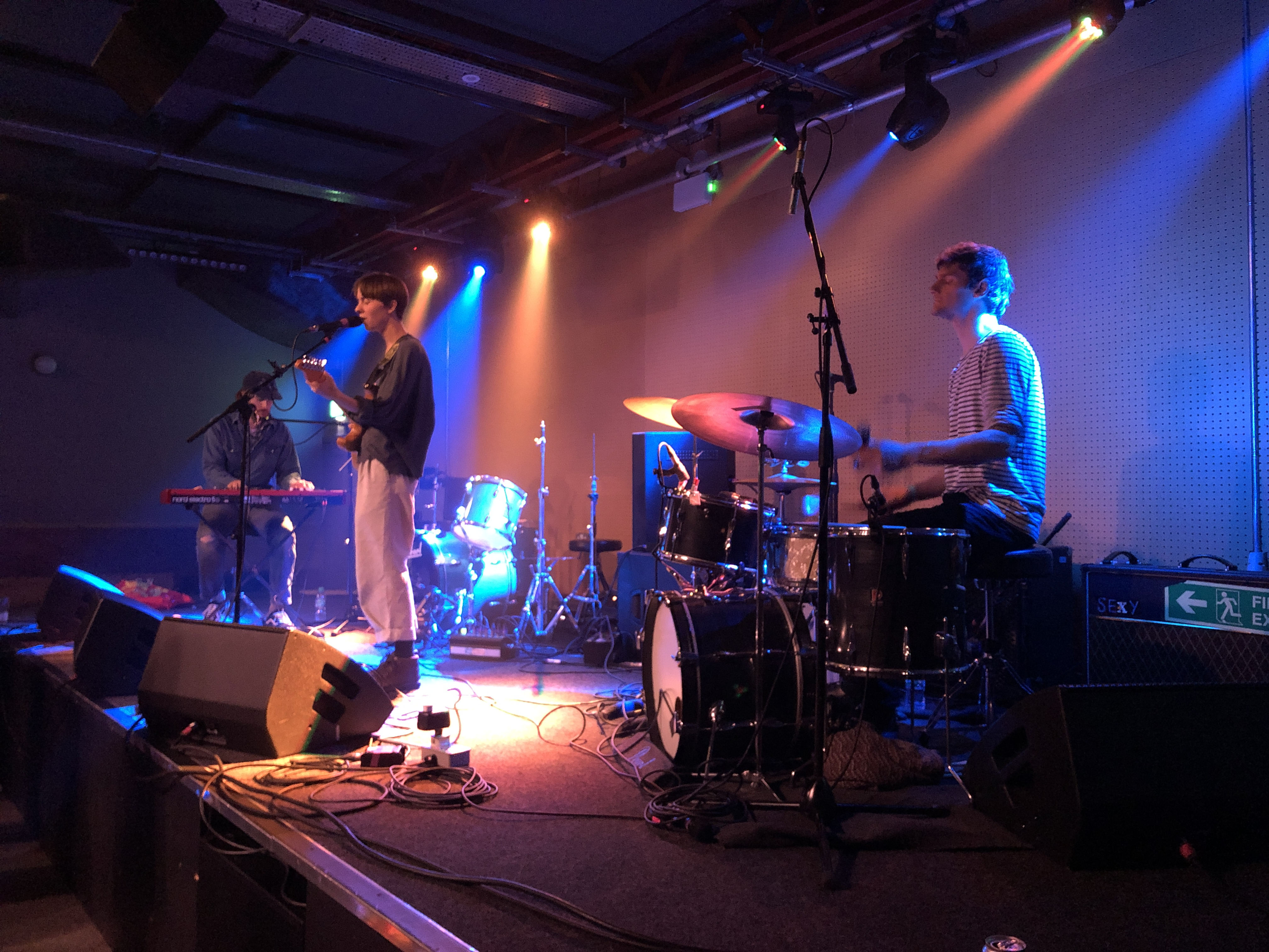 Meg Duffy performing with Hand Habits at the Brudenell Socia Club, Leeds, UK